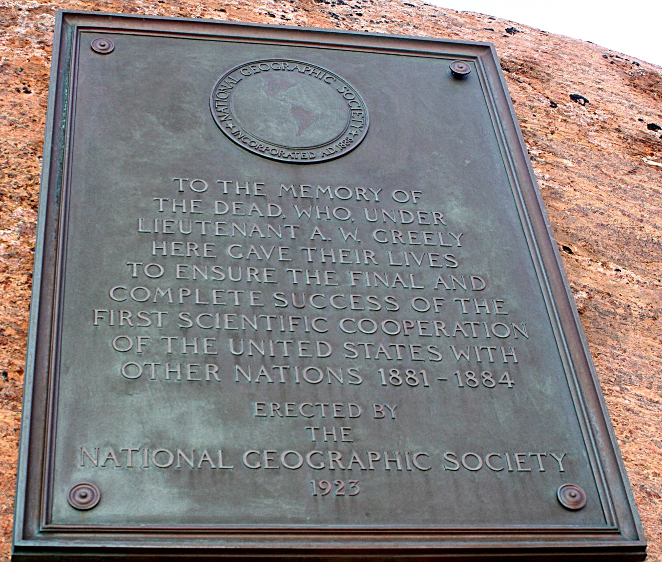 Pim Island, to the memory of dead men from the expedition of Adolphus Greely. Photograped by Brocken Inaglory in September of 2005